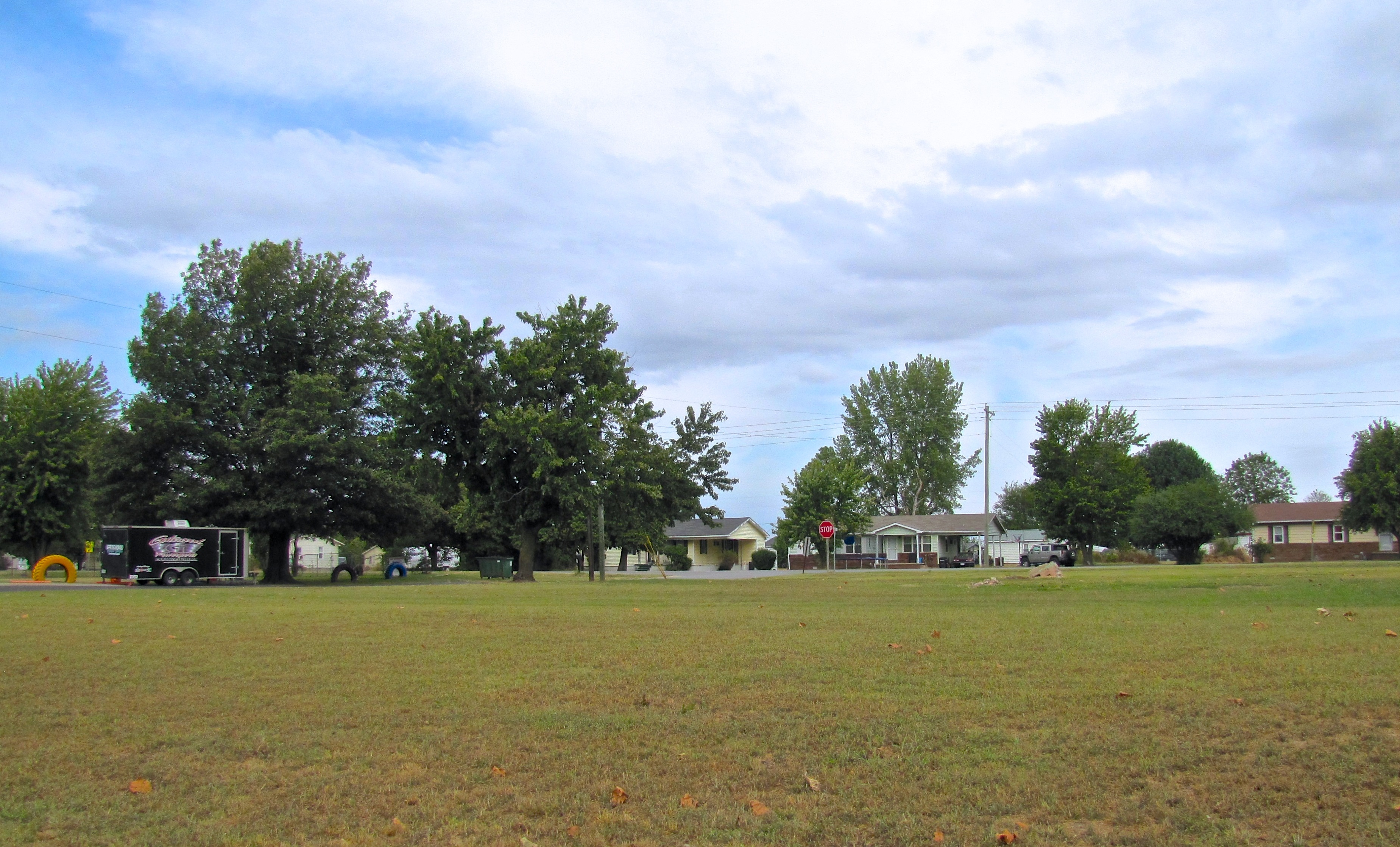 Buildings along US 62 in Howardville, Missouri, United States.